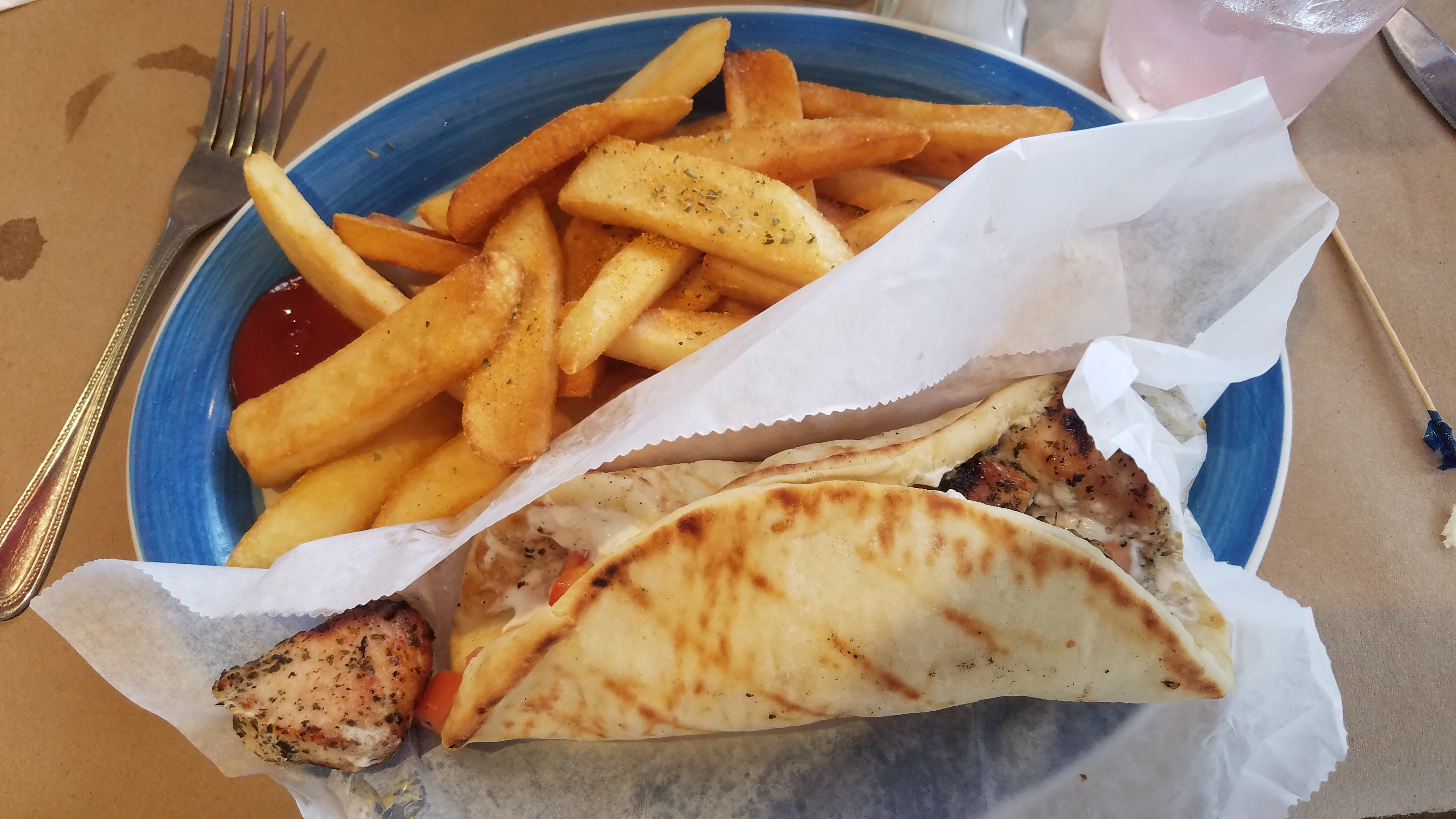 A chicken souvlaki pita with tzatziki sauce, tomatoes, and french fries from a Greek restaurant in the United States